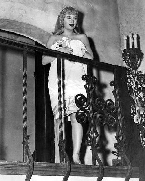 Promotional still from the 1944 film Double Indemnity